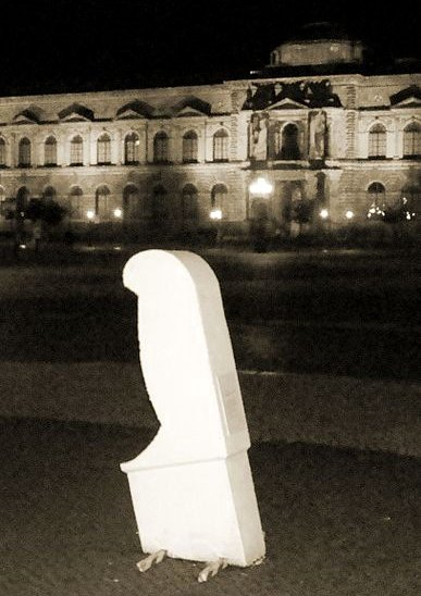 Marwa El Sherbini memorial “18 knife stabs” in front of the Semperoper in Dresden